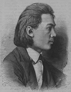 Sketch of a polish composer and pianist Antoni Stolpe.